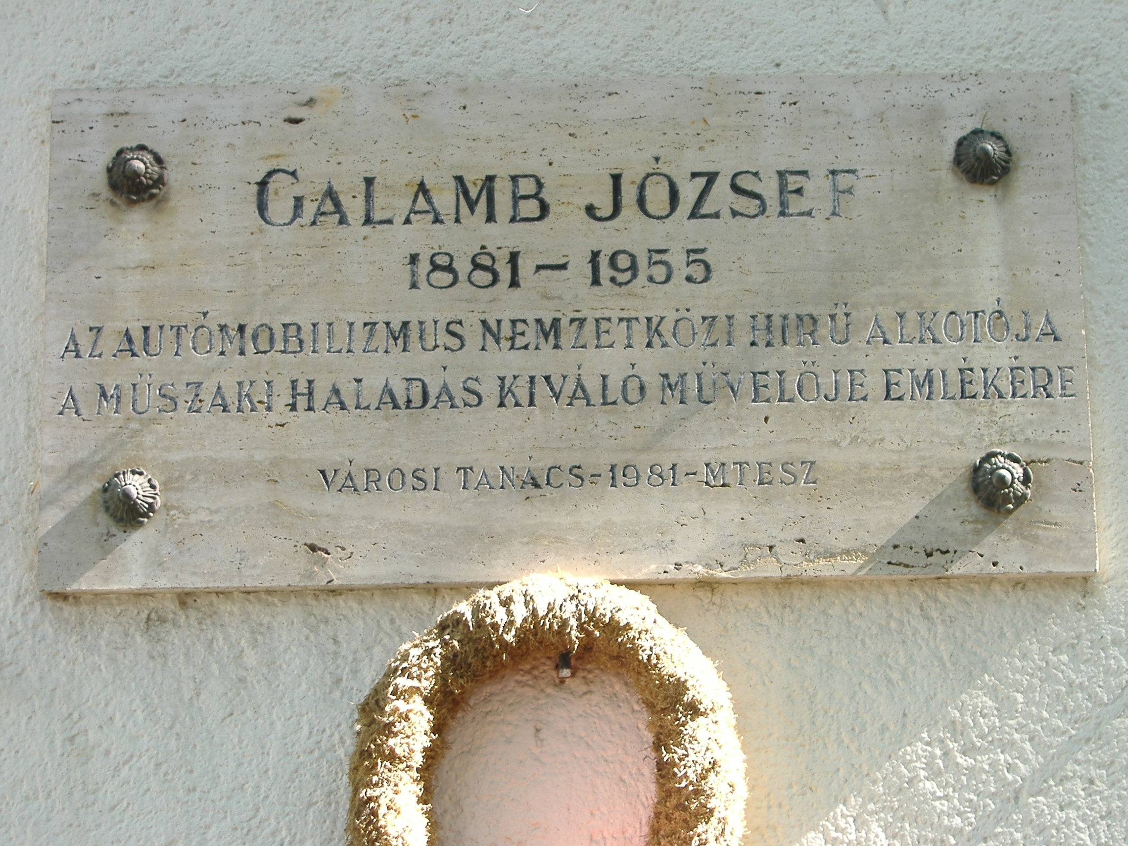 Memorial tablet of Joseph Galamb, inventor of the Ford T-modell in Makó, Hungary.